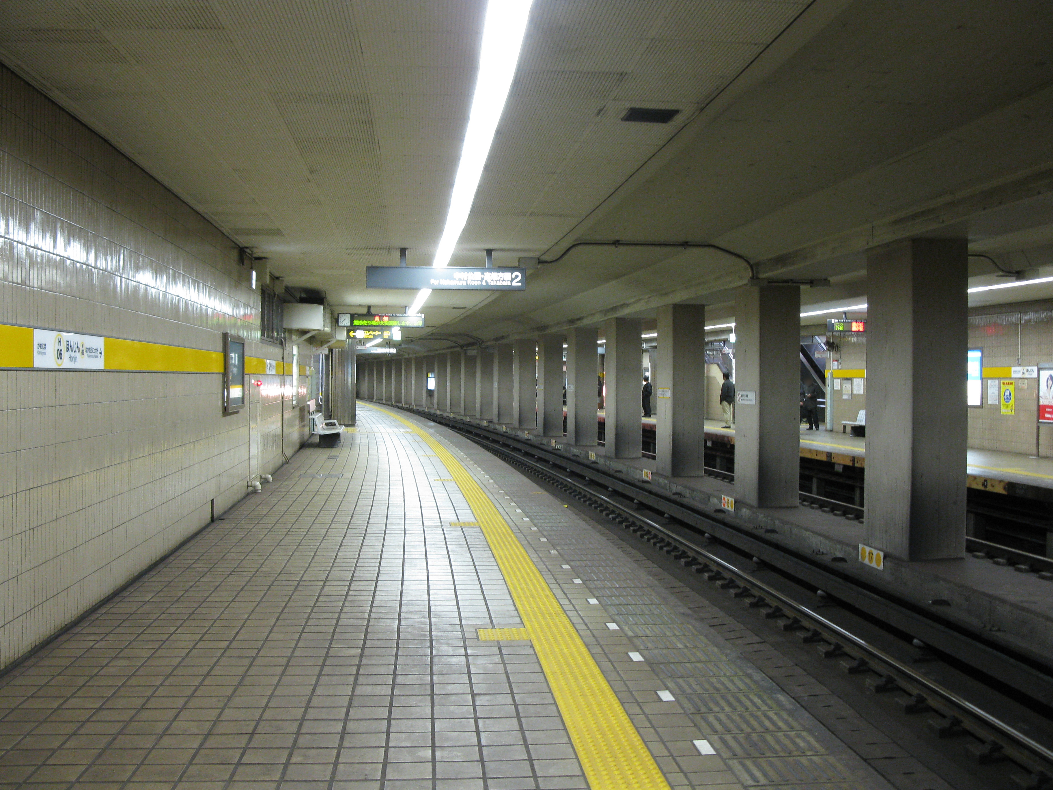 Honjin Station platform (Nagoya Municipal Subway Higashiyama Line)